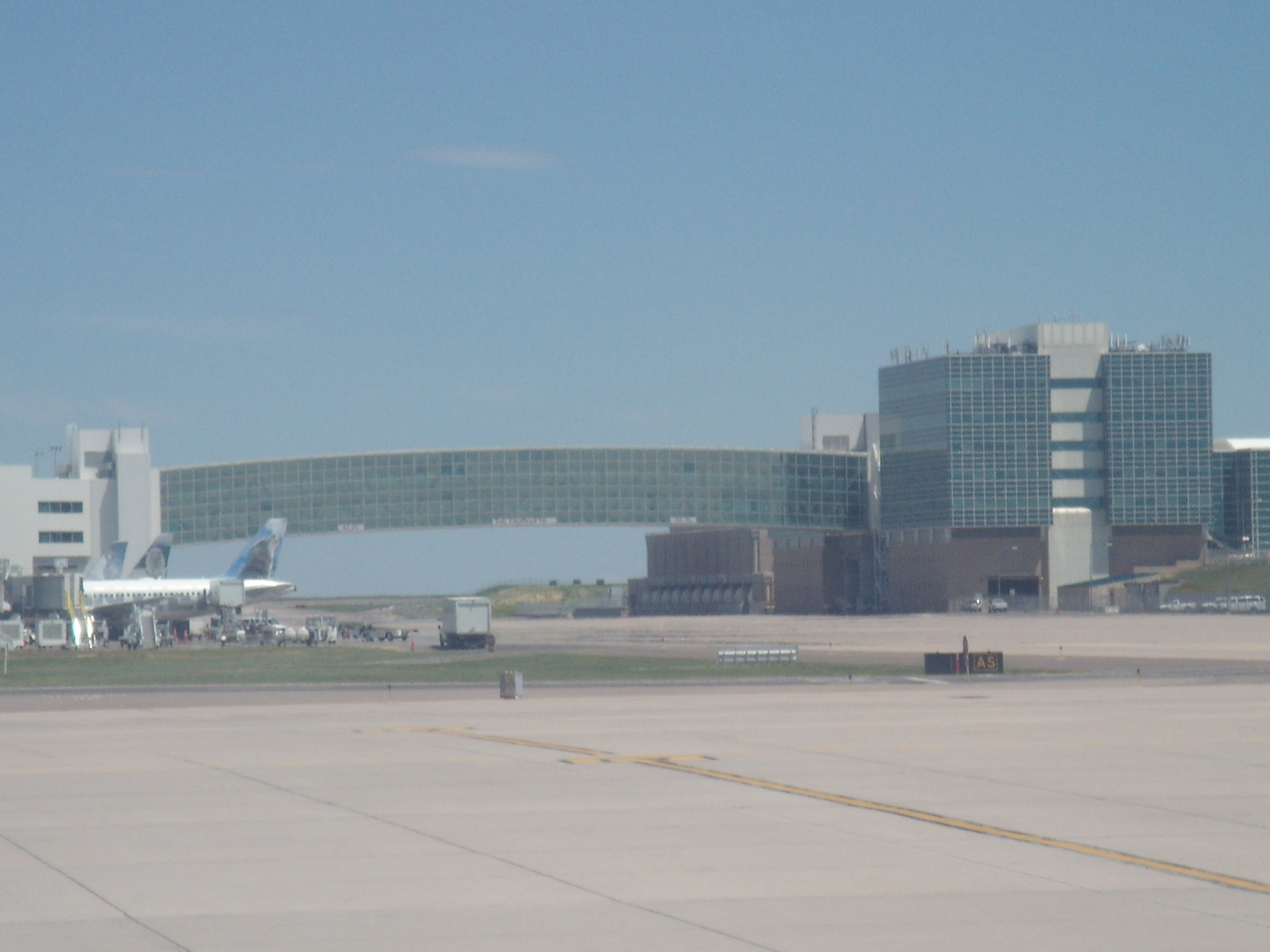 The Pedestrian Bridge connecting DIA's Jeppesen Terminal with Concourse A. Concourse A is the only concourse at DIA that is accessible without having to board an underground train.